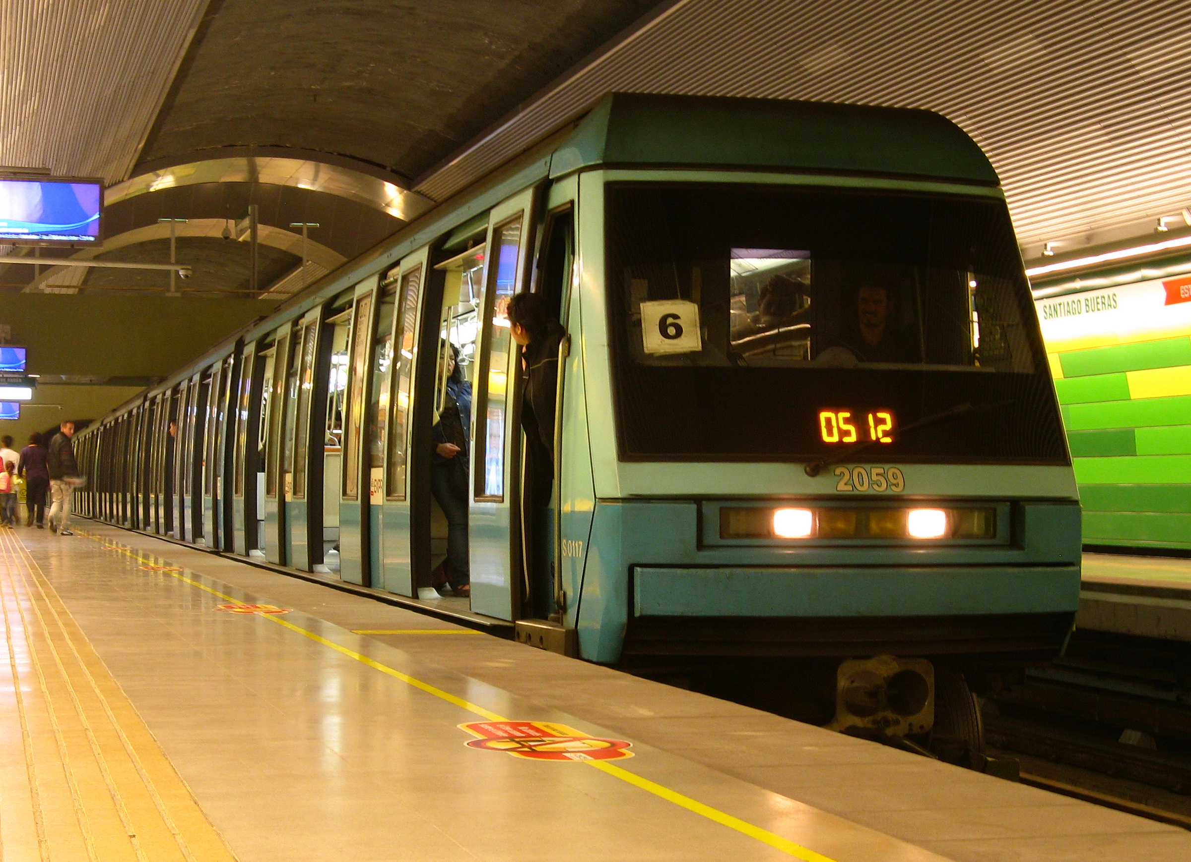 NS-93 train of Metro de Santiago in the new station Santiago Bueras